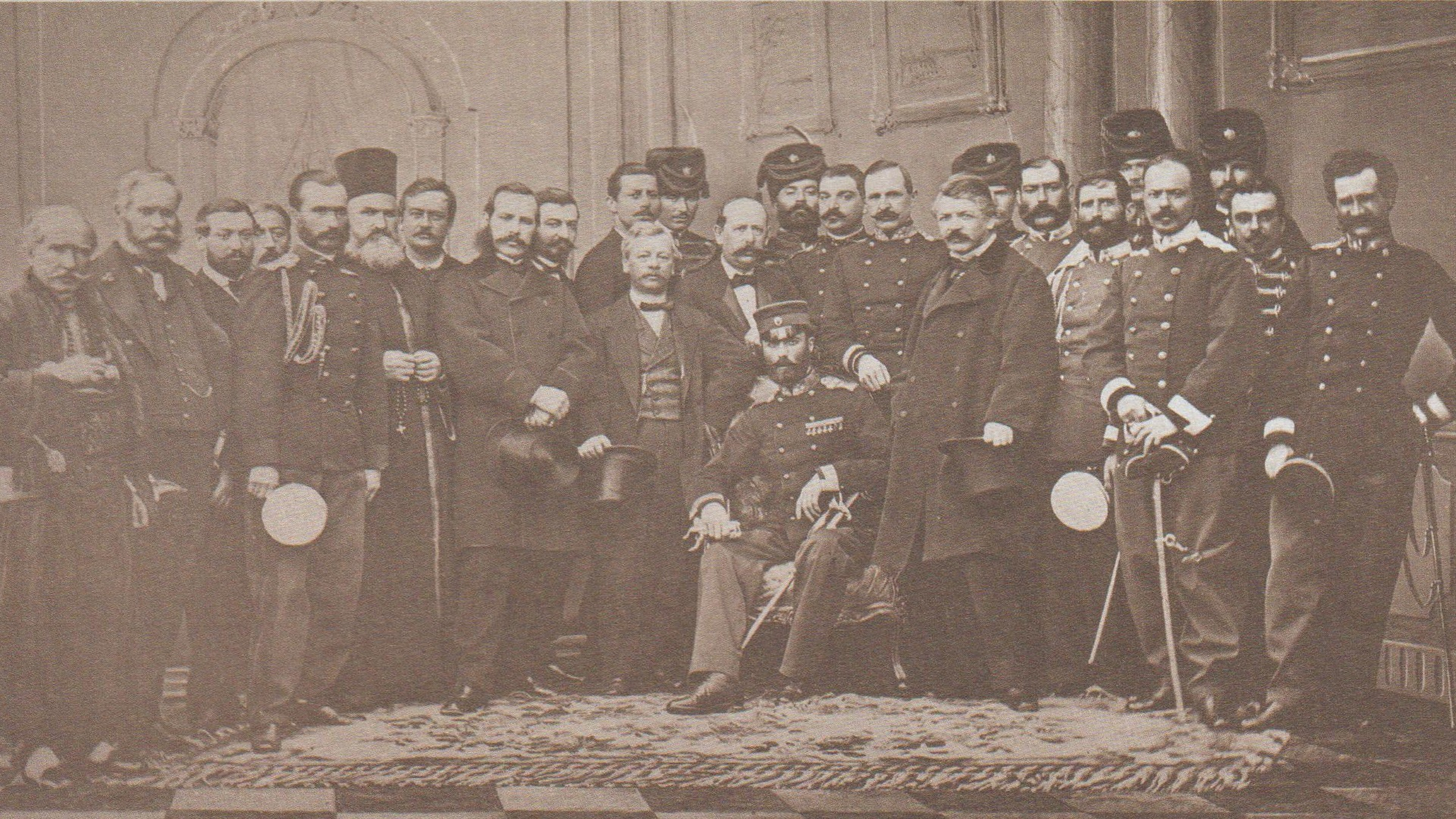 Constantinople, 1867 - P. Sebah, The Serbian delegation in ConstantinopleCatalog number: Zf, C-VI-2